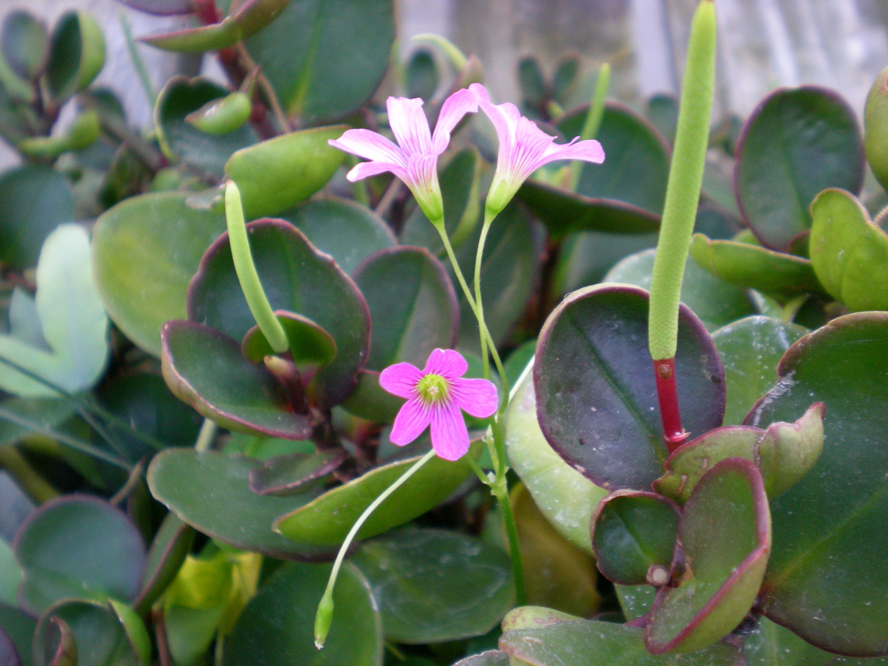 Peperomia clusiifolia green spikes of flowers and leaves; pink flowers are not P. clusiifolia